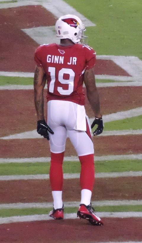 Tedd Ginn Jr. in 2014